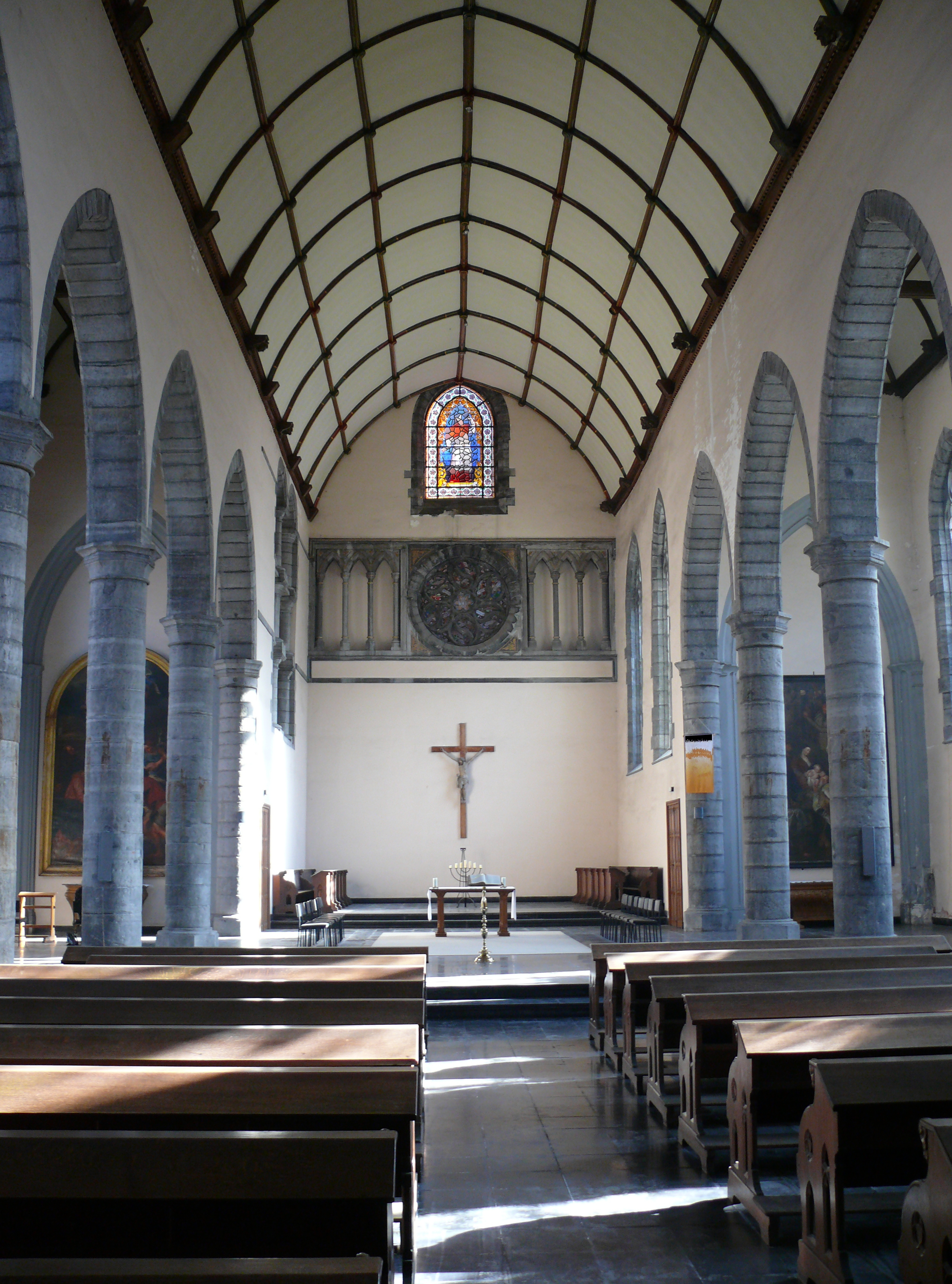 The interior of the former Jesuit Church in the Seminary of Tournai.